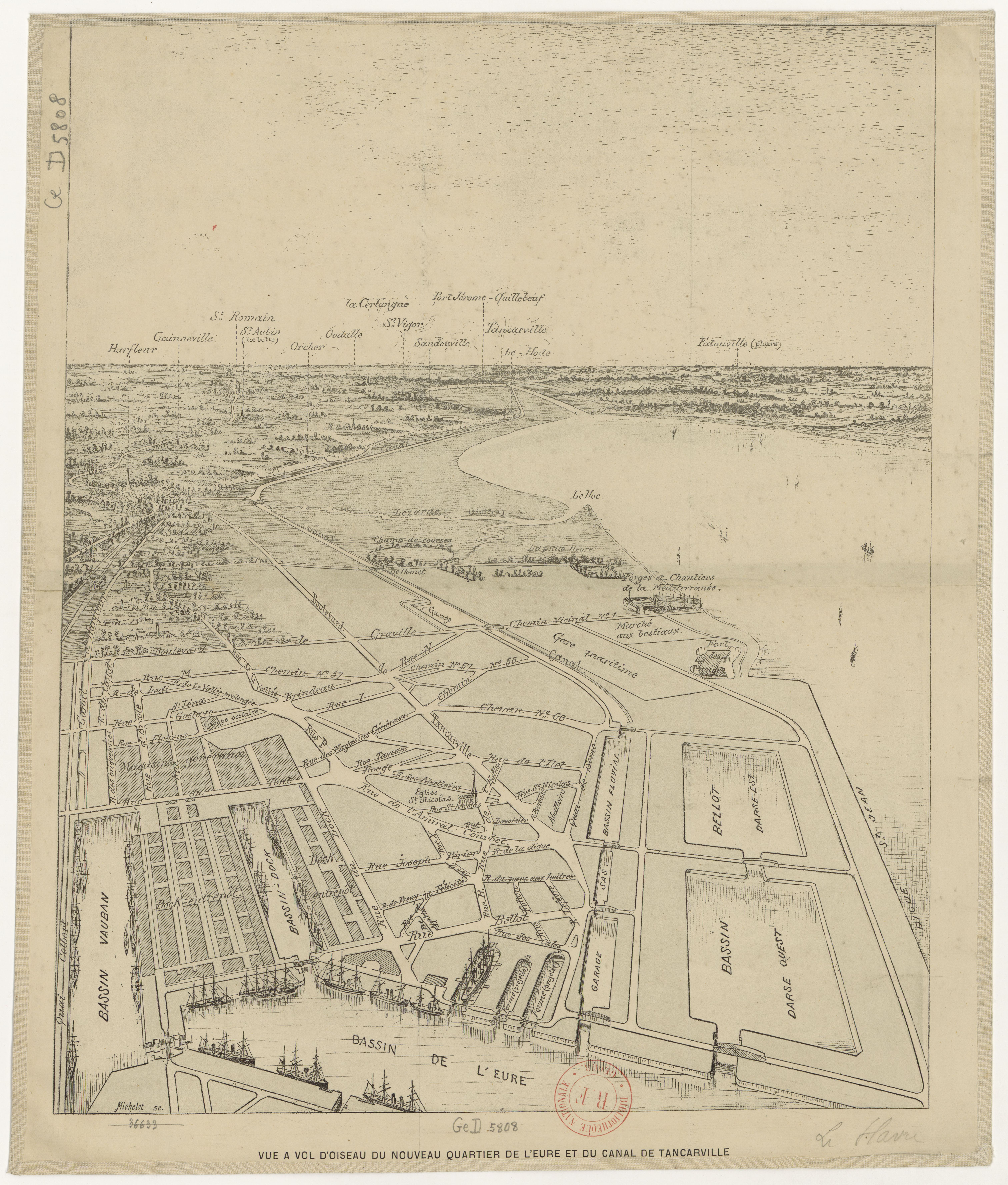 Bird's-eye view of the new Eure quarter and the Tancarville Canal in Le Havre, France. The canal opened in 1887.